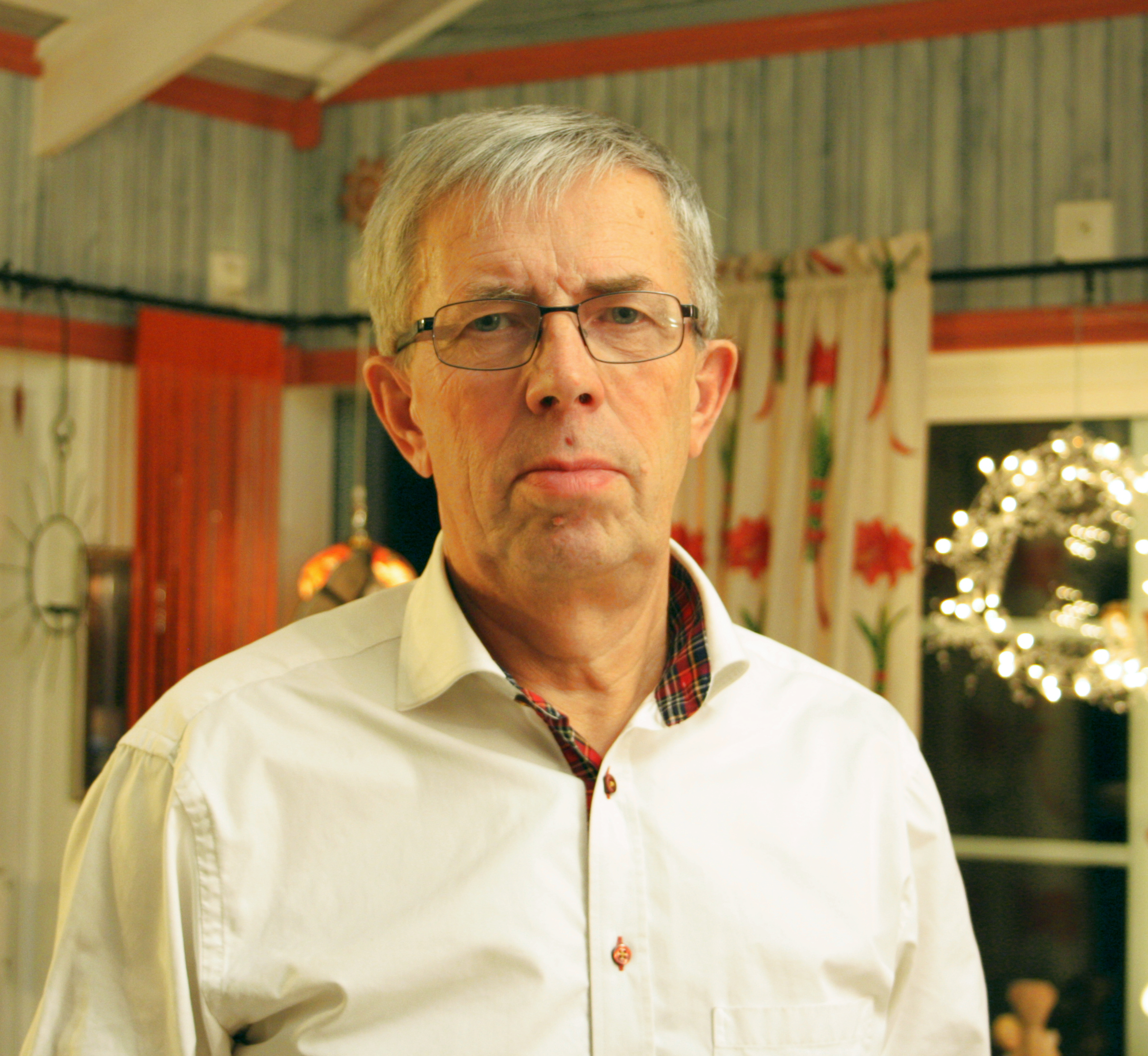 Hans Wallberg. Internet veteran. He is one of the leading experts in network infrastructure and communications in Sweden.